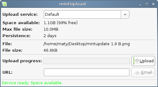 MintUpload_1.2